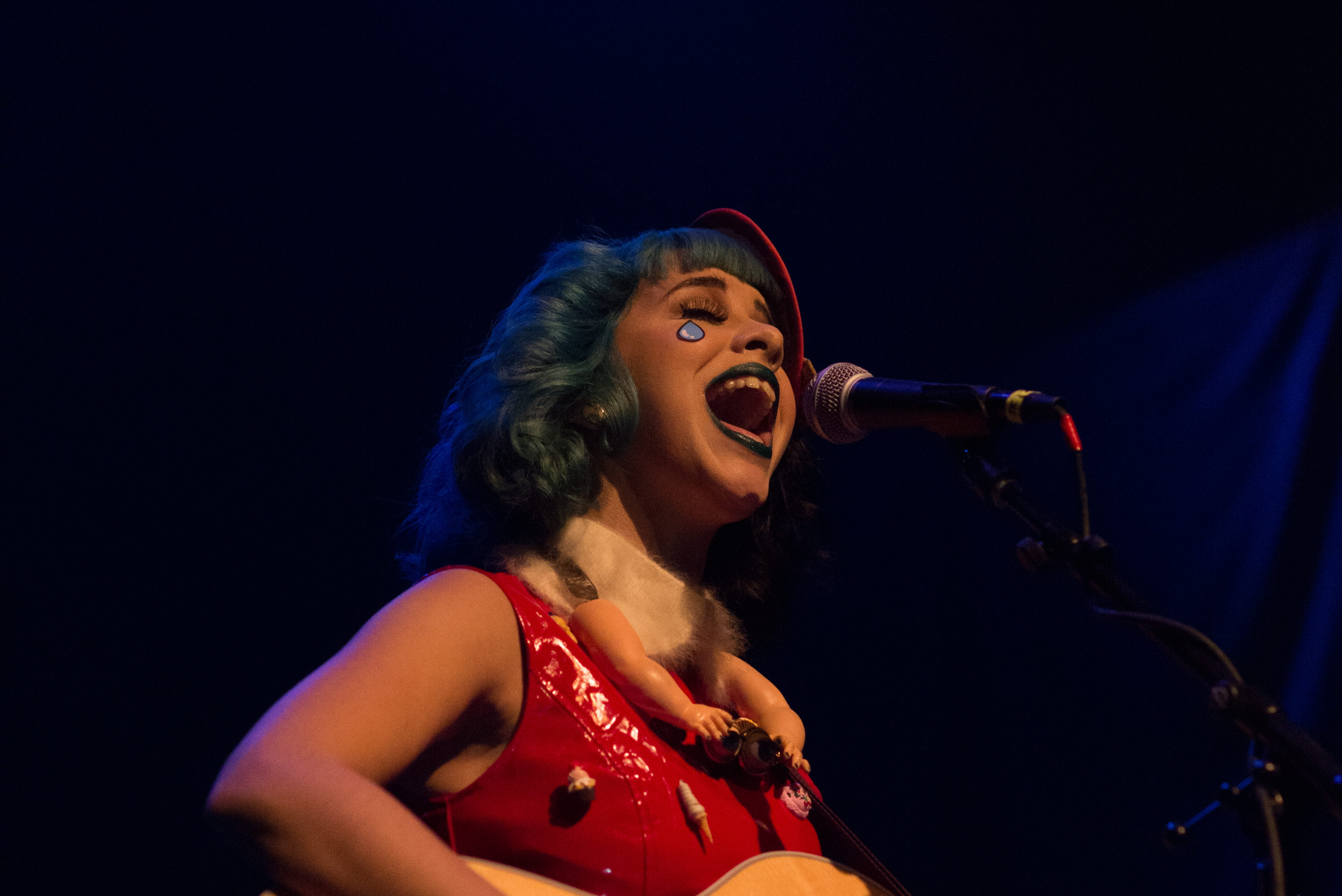 Melanie Martinez at Gramercy Theater, 2/15/2014